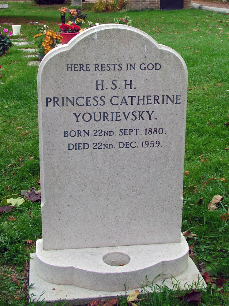 New gravestone, taken October 2018